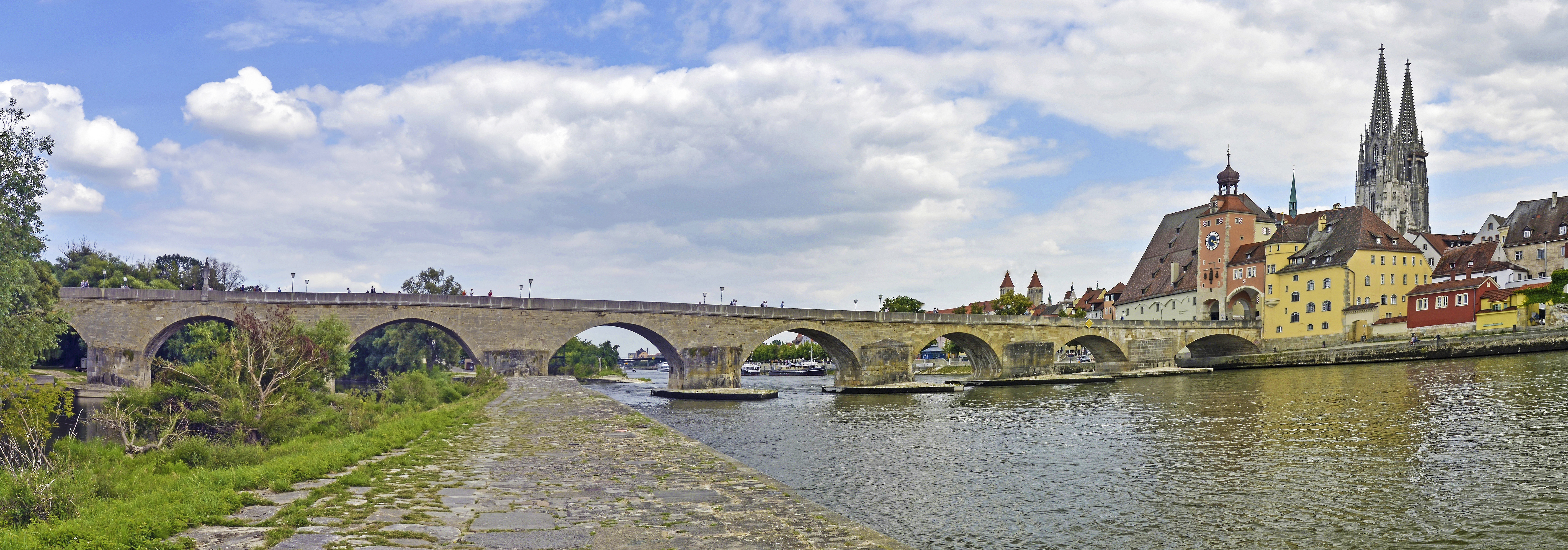 Regensburg (Germany) - Donau - Steinerne Brücke - Panorama